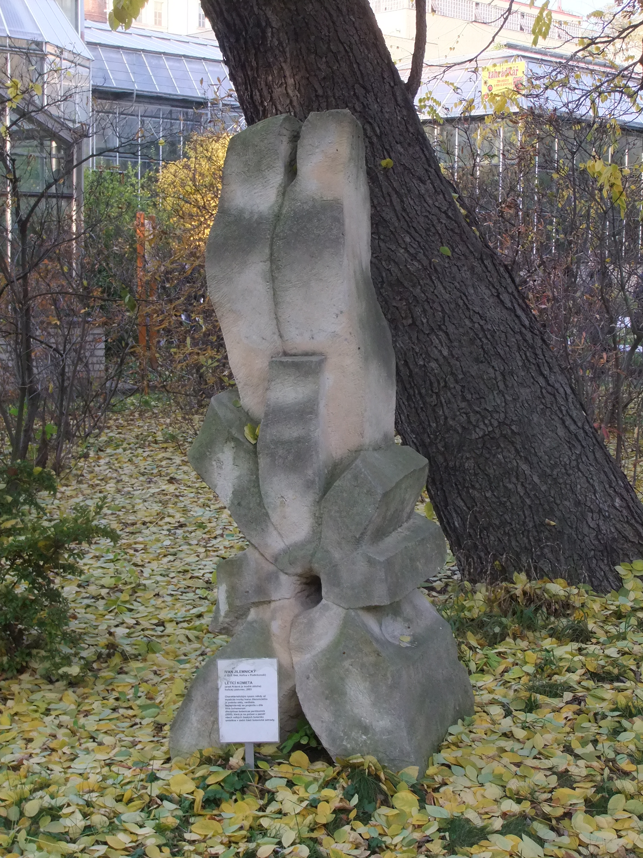 The Czech sculptor Ivan Jilemnický: The Flying Comet – The botanic garden, Praha, Czech Republic Česky: Ivan Jilemnický: Letící kometa aneb Krásná je modrá obloha – socha v botanické zahradě v Praze Na Slupi, hořický pískovec, 2003